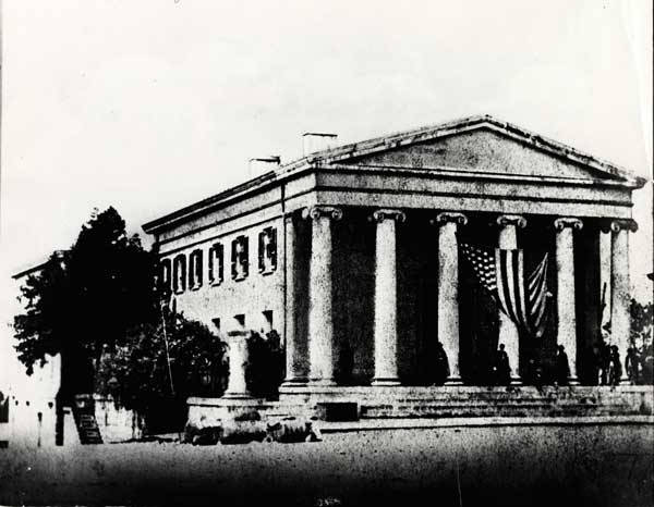 Now Regions Bank, the Northern Bank of Alabama bears the Union flag shortly after Huntsville was occupied by Federal troops in 1862. The bank still occupies the south corner of West Side Square.